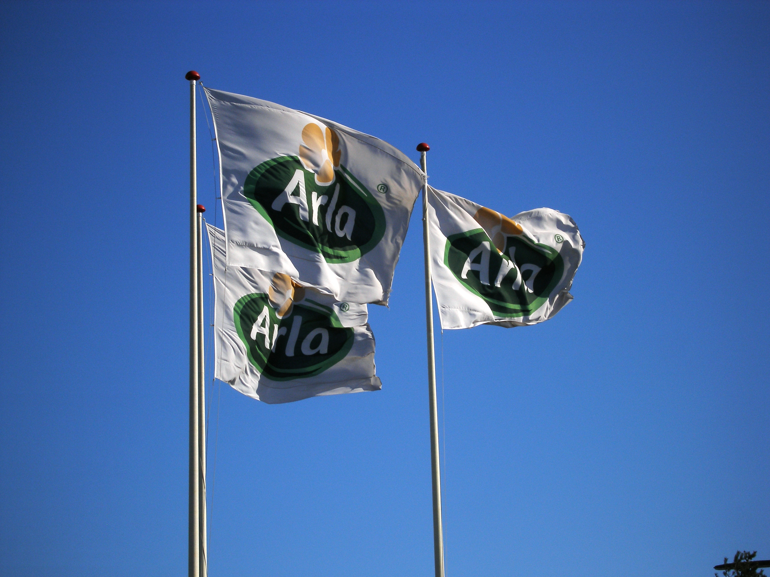 Flags of dairy company Arla Foods in Ishøj, Denmark